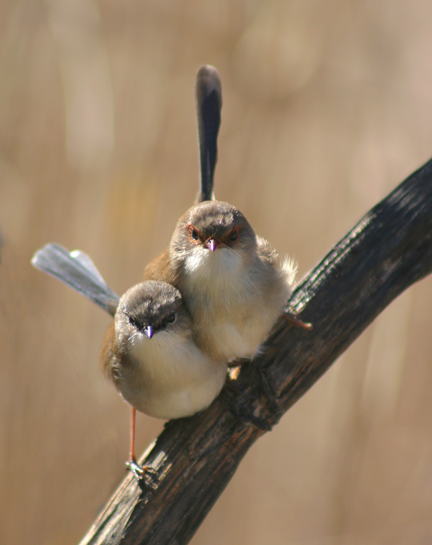 Superb Fairy-wren (Malurus cyaneus). A pair on a branch. The bird on the left with a dark bill is a male with dull plumage, and the bird on the right with paler bill is a female.